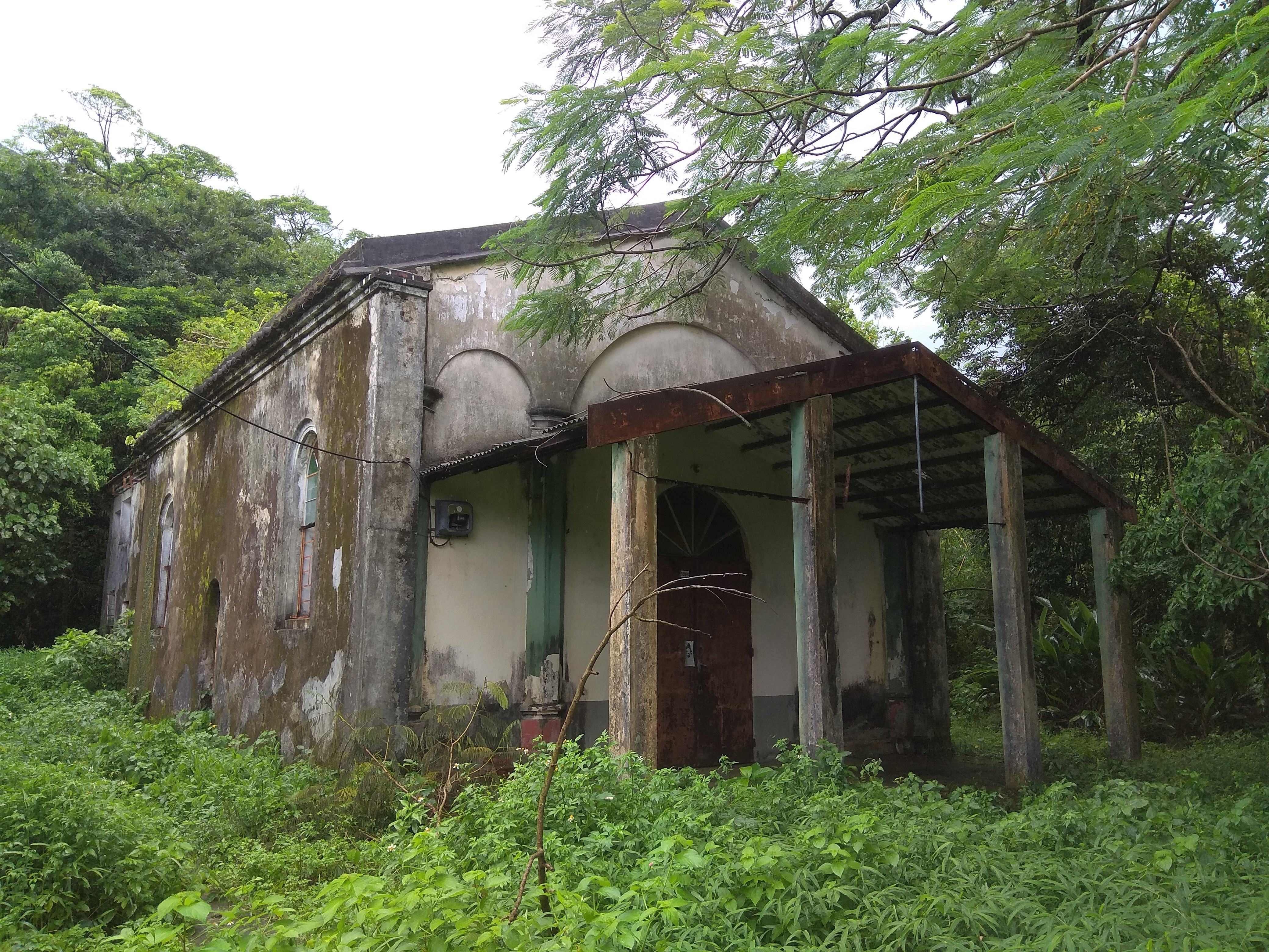 Chapel of the Immaculate Conception (Hong Kong)